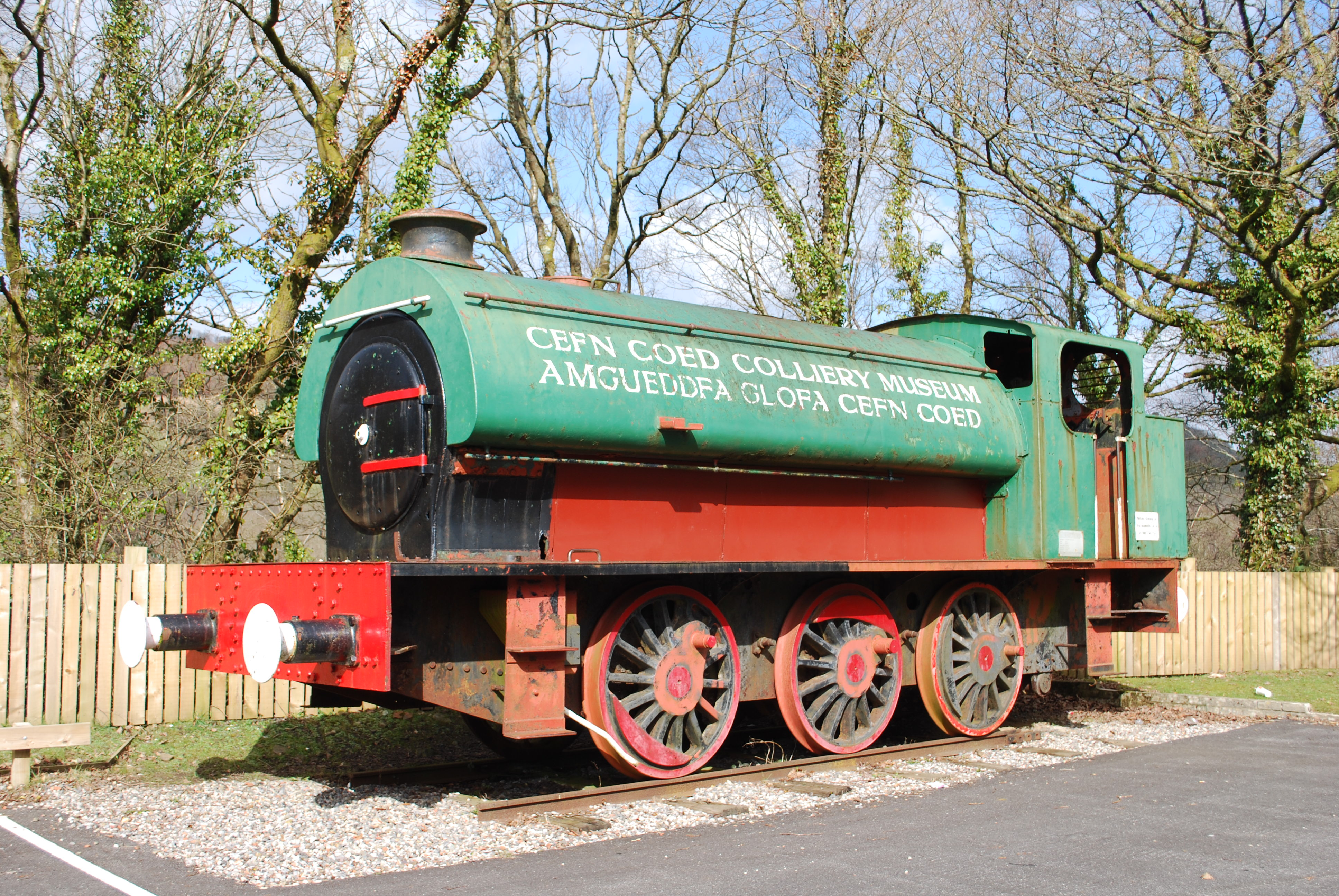 M.o.S. "Austerity" 0-6-0ST, Bagnall No.2758 of 1944, at Cefn Coed Colliery Museum, Creunant 03/12.